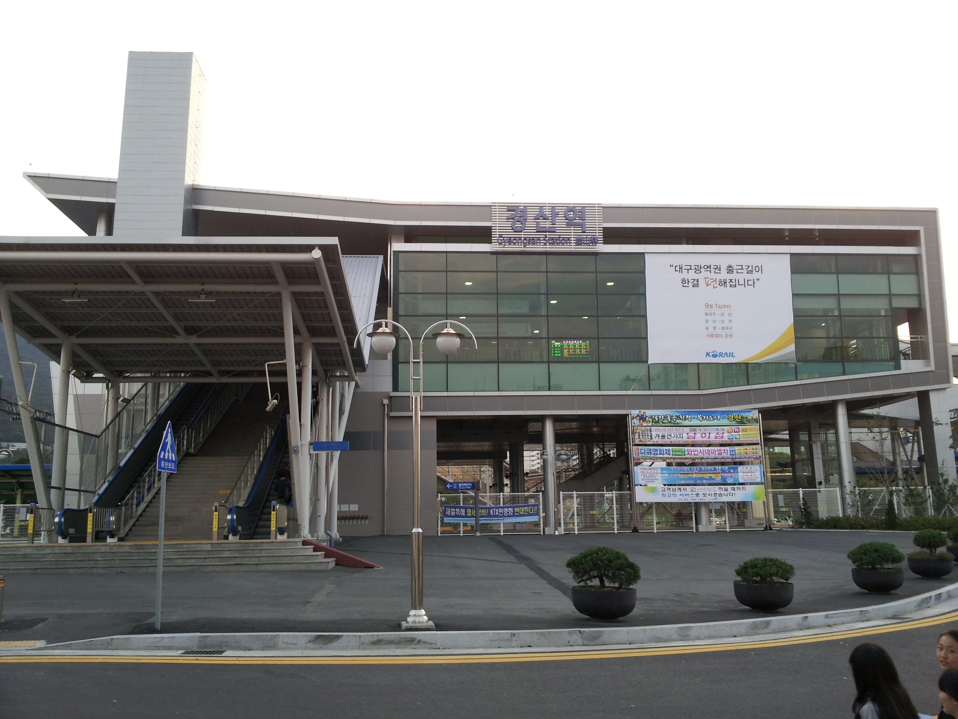 Gyeong-San Stn.